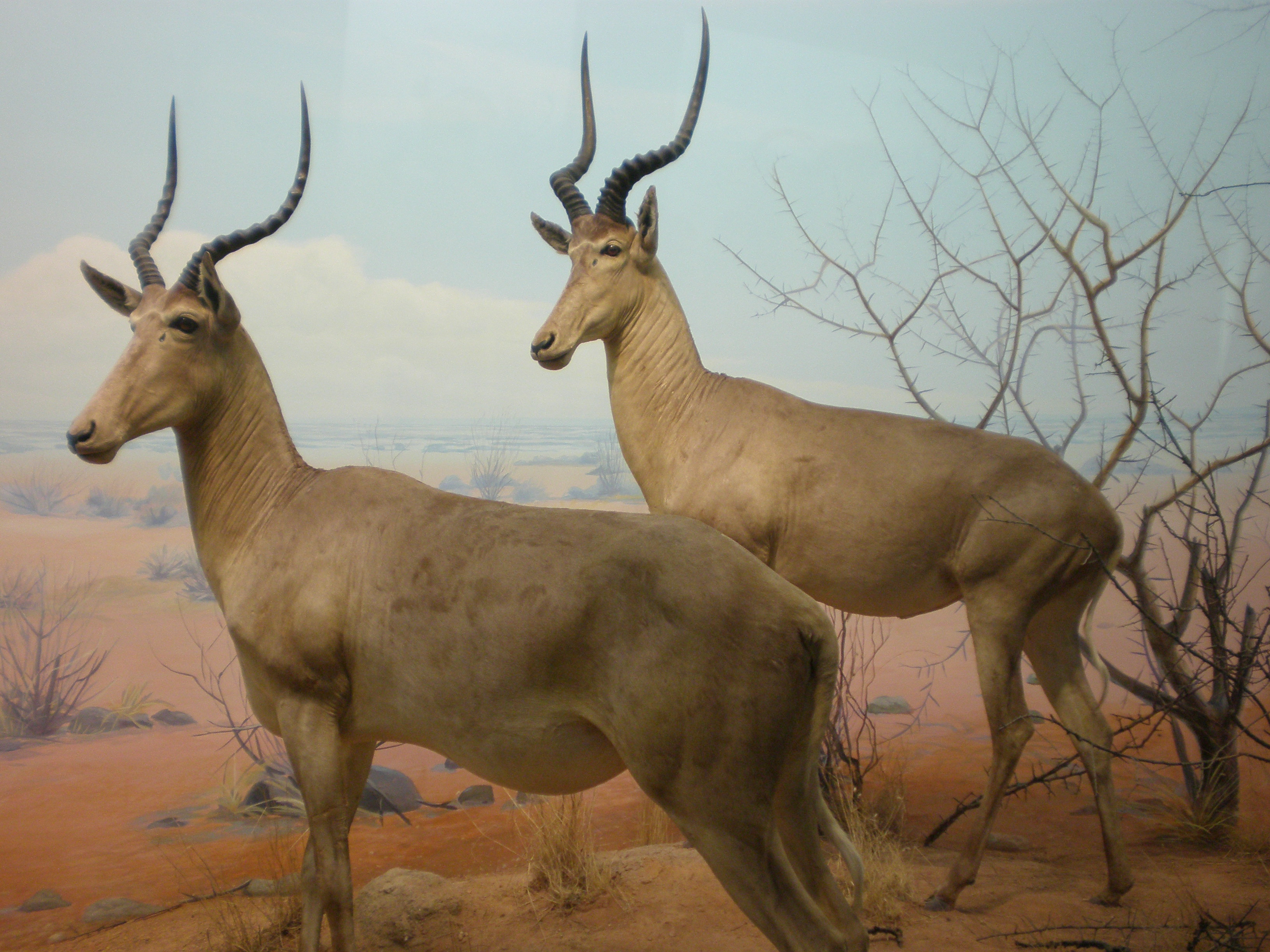 Hunter's Hartebeest (Damaliscus hunteri) in the African Hall of the Kimball Natural History Museum at the California Academy of Sciences in San Francisco.